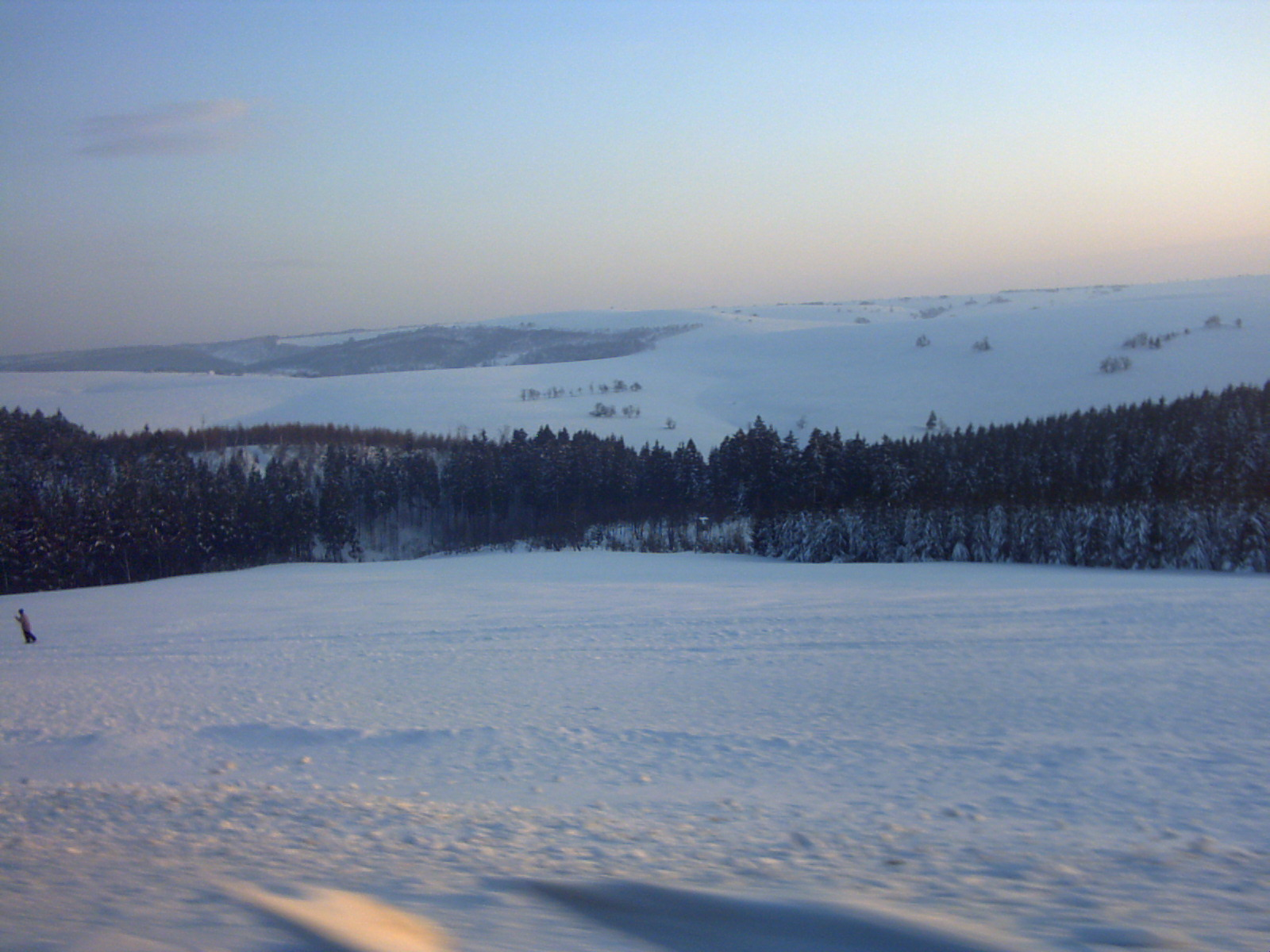 A winter view in the Ore Mountains (near Altenberg/Germany).